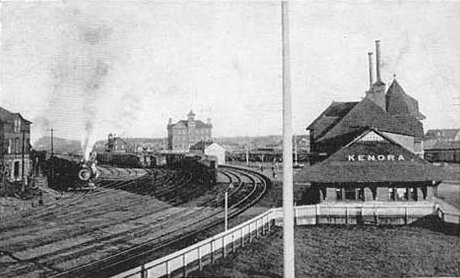 Old photo of the Kenora CPR railway station, circa 1906.